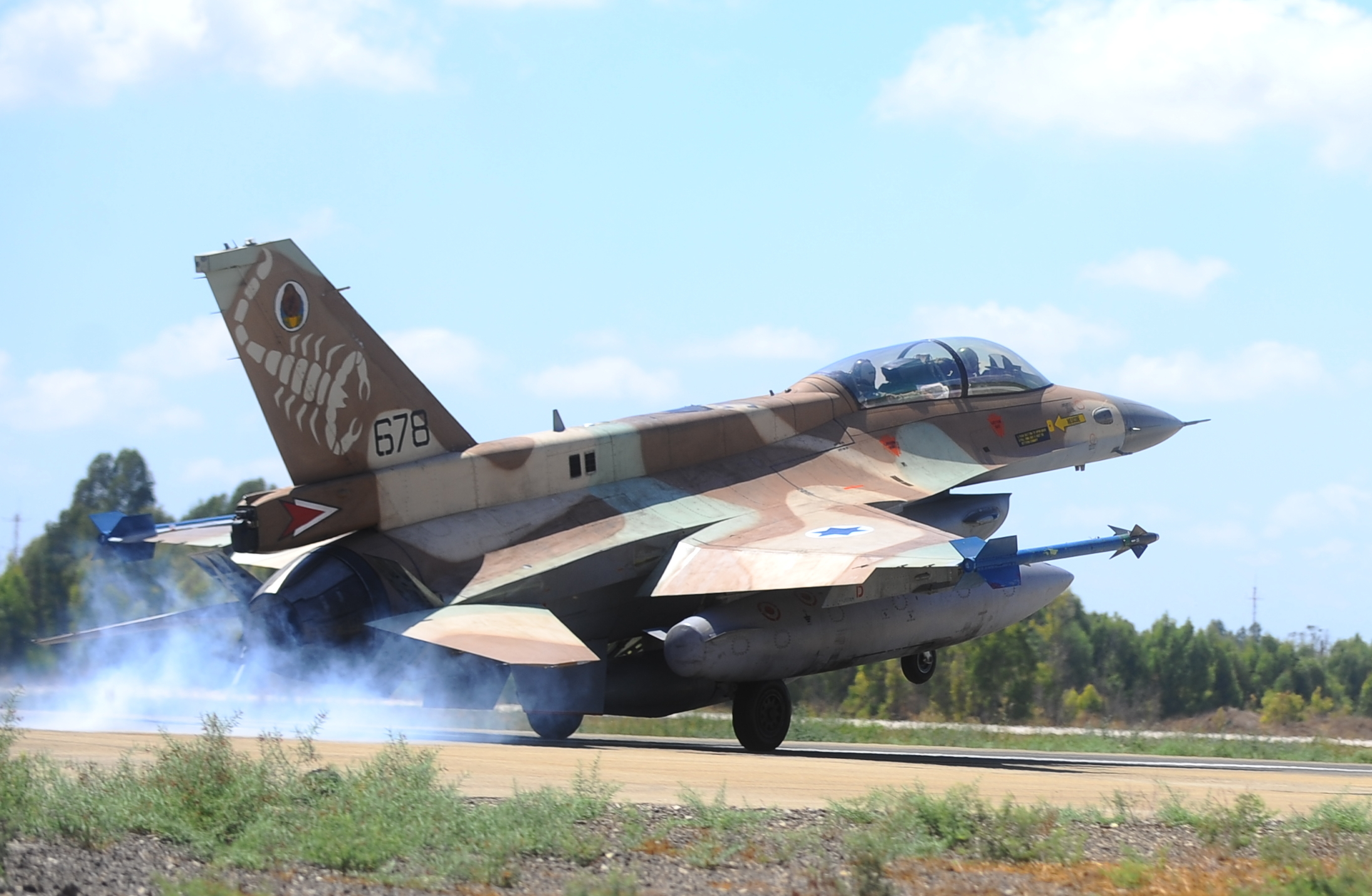 August 8, 2012 Pilots practice landing and take-off techniques at Nevitim Airbase. Photo: Ori Shifrin, IDF Spokesperson's Unit The Israel Defense Forces Facebook • blog • Twitter